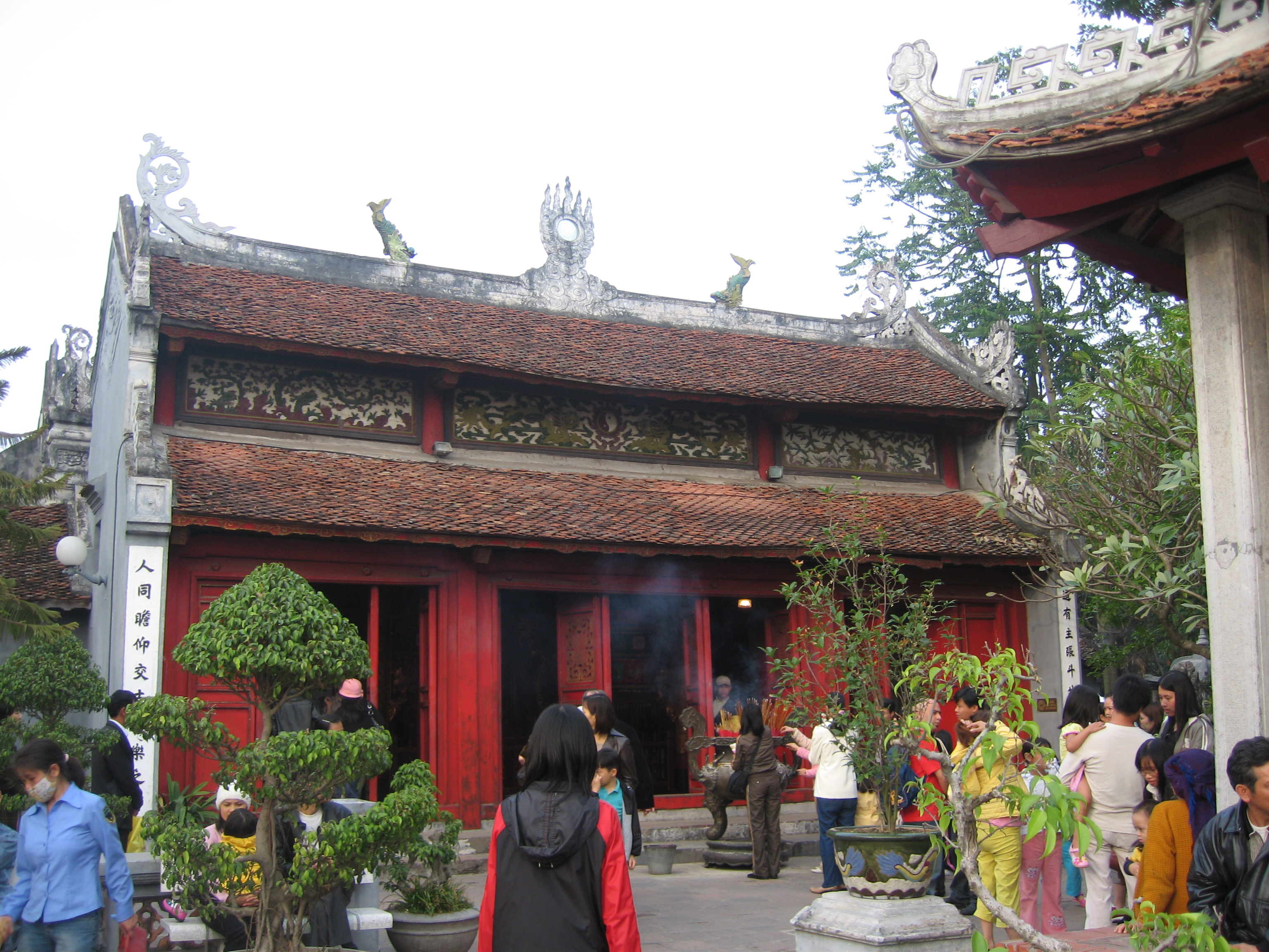 Picture of NNU